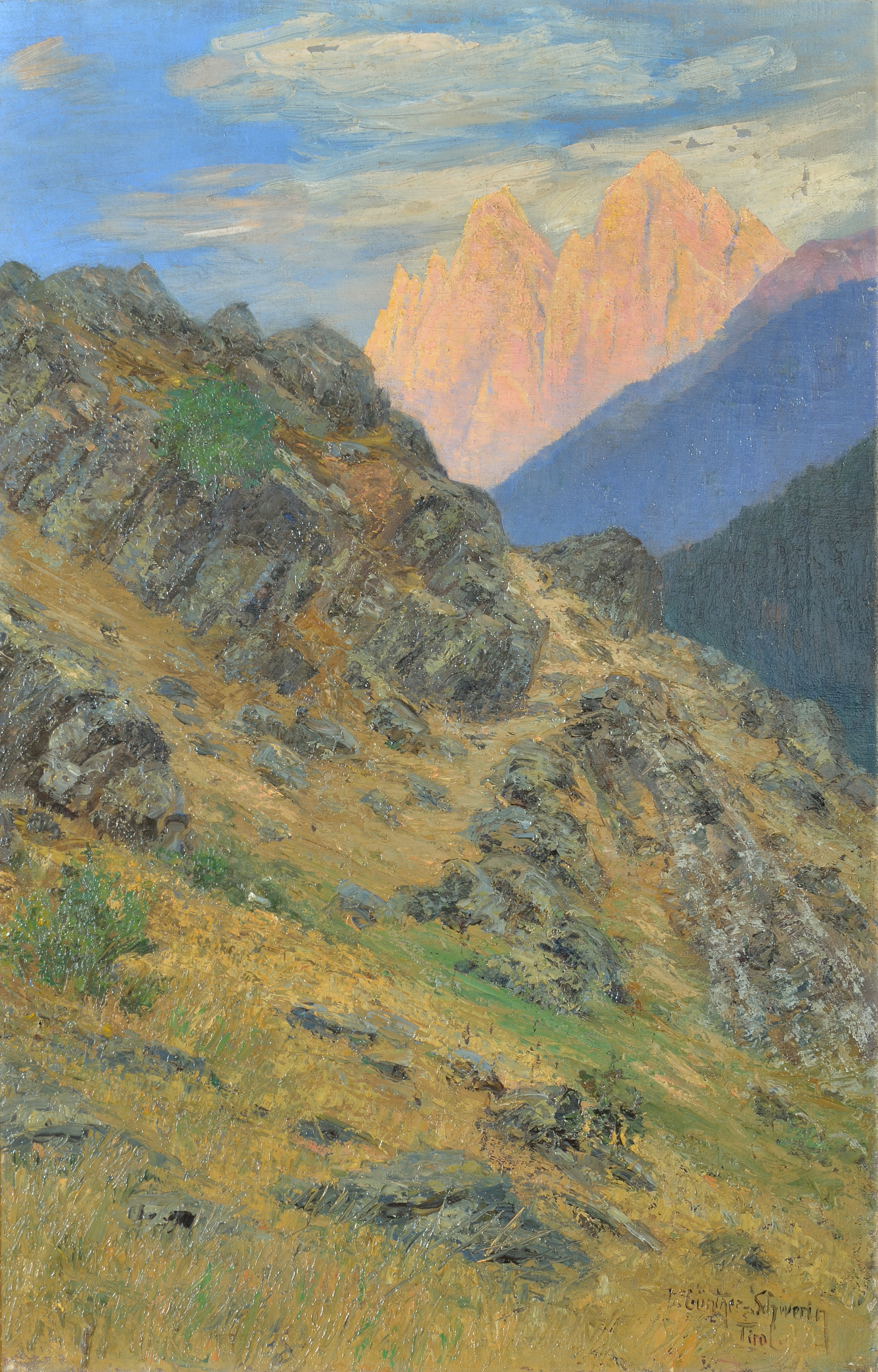 Oil painting "Evening in the Dolomites" with the Geisler group by Leopold Günther-Schwerin (1865–1938) AD 1900. Private property